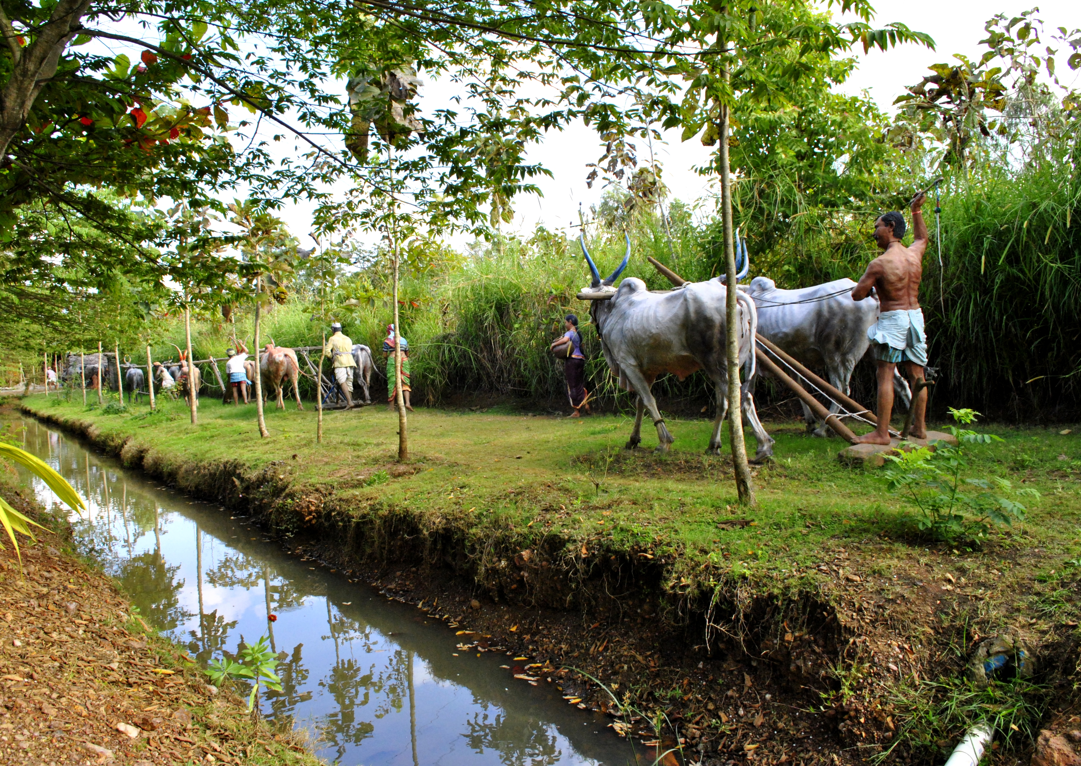 Sculptures depicting the traditional farming methods.